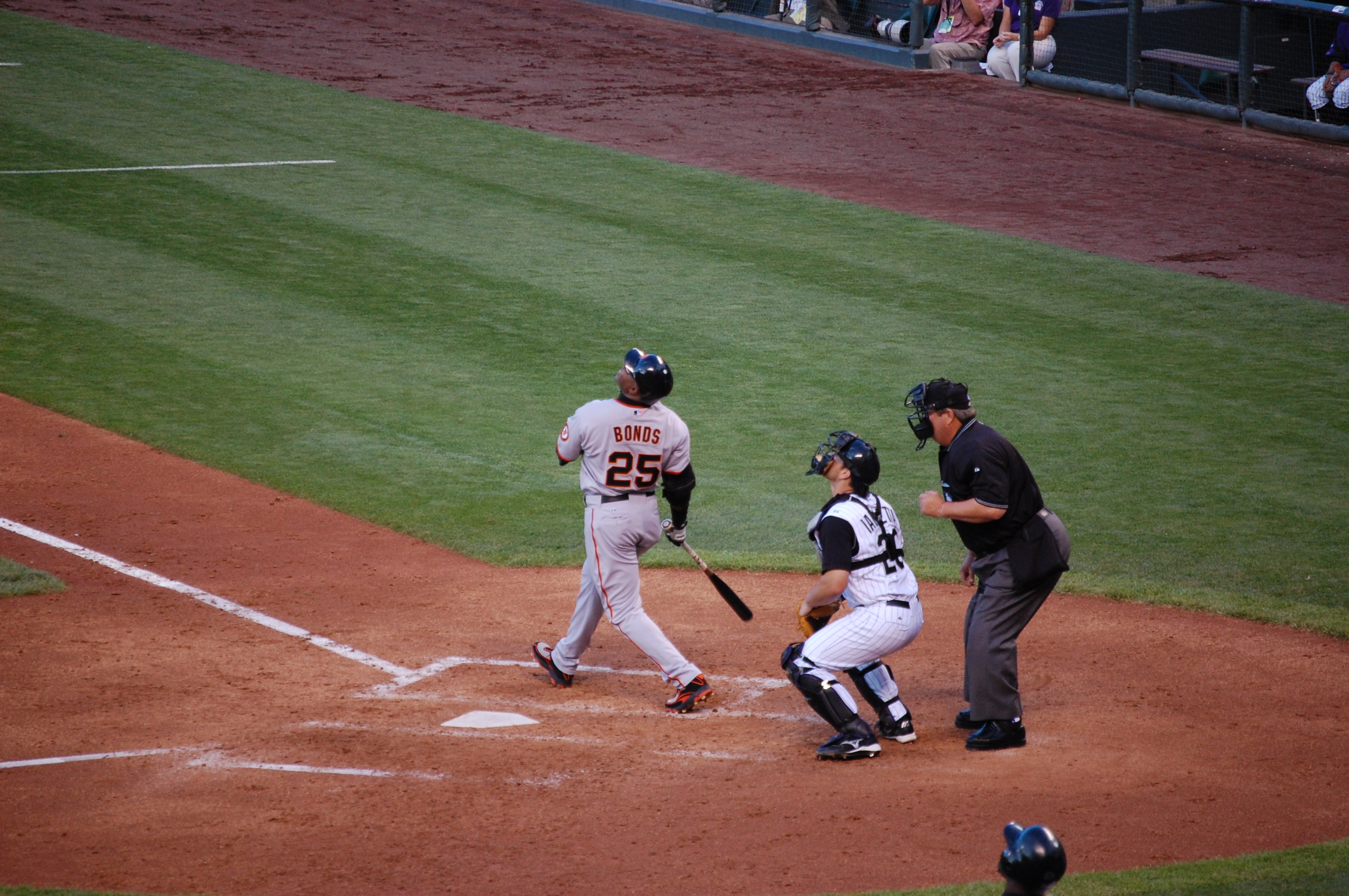 my own shot; release under gfdl 20:00, 13 May 2007 . . Onetwo1 . . 3008×2000 (1.34 MB)